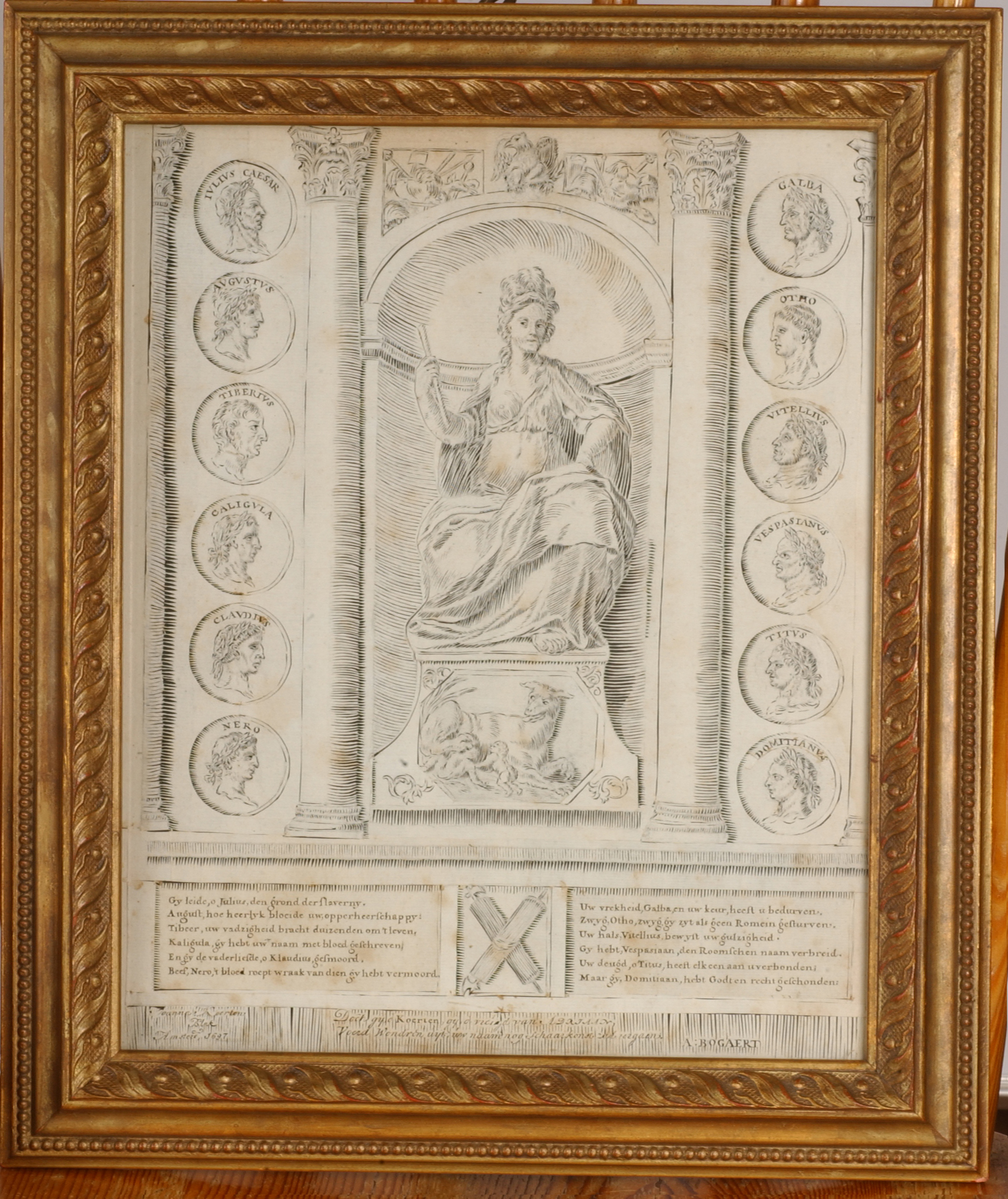 Clipping by Johanna Koerten